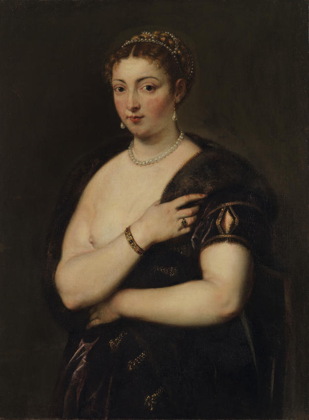 PETER PAUL RUBENS Young woman in a fur wrap (after Titian) c.1629–1630 Queensland Art Gallery The painting is a copy after Titian’s work Girl in a fur wrap, in the collection of the Kunsthistorisches Museum, Vienna. It may have been created after Rubens’s visit to England in 1629–30.